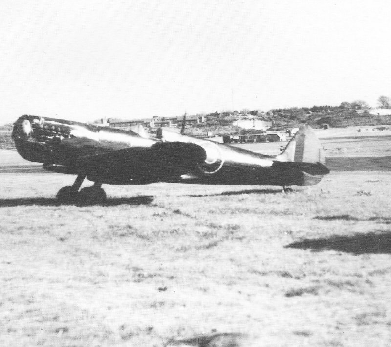 Spitfire XI EN 409 which was used in high speed diving trials in 1944. I scanned the image in from the book detailed below. The book clearly states that the image is Crown Copyright. Source Alfred Price: The Spitfire Story, Silverdale Books, ISBN 1-85605-702-X